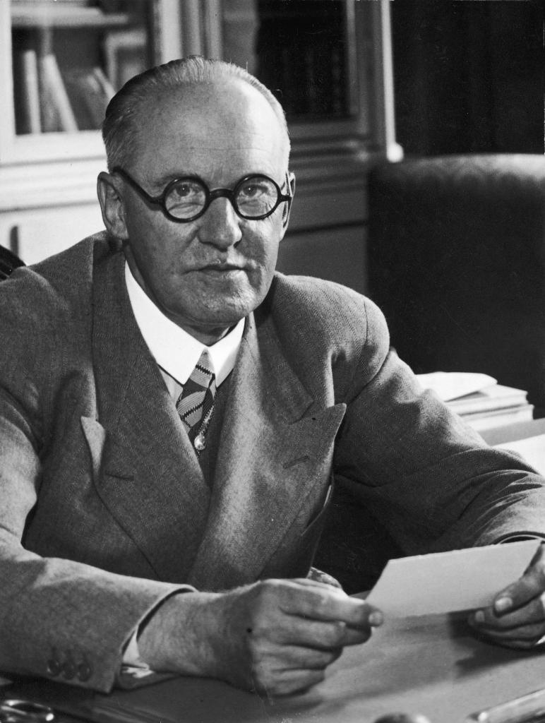 Karl Kristian Steincke (1880-1963), Danish jurist, politician, MP, Justice Minister, Minister of Social Welfare, Chairman of the Landsting